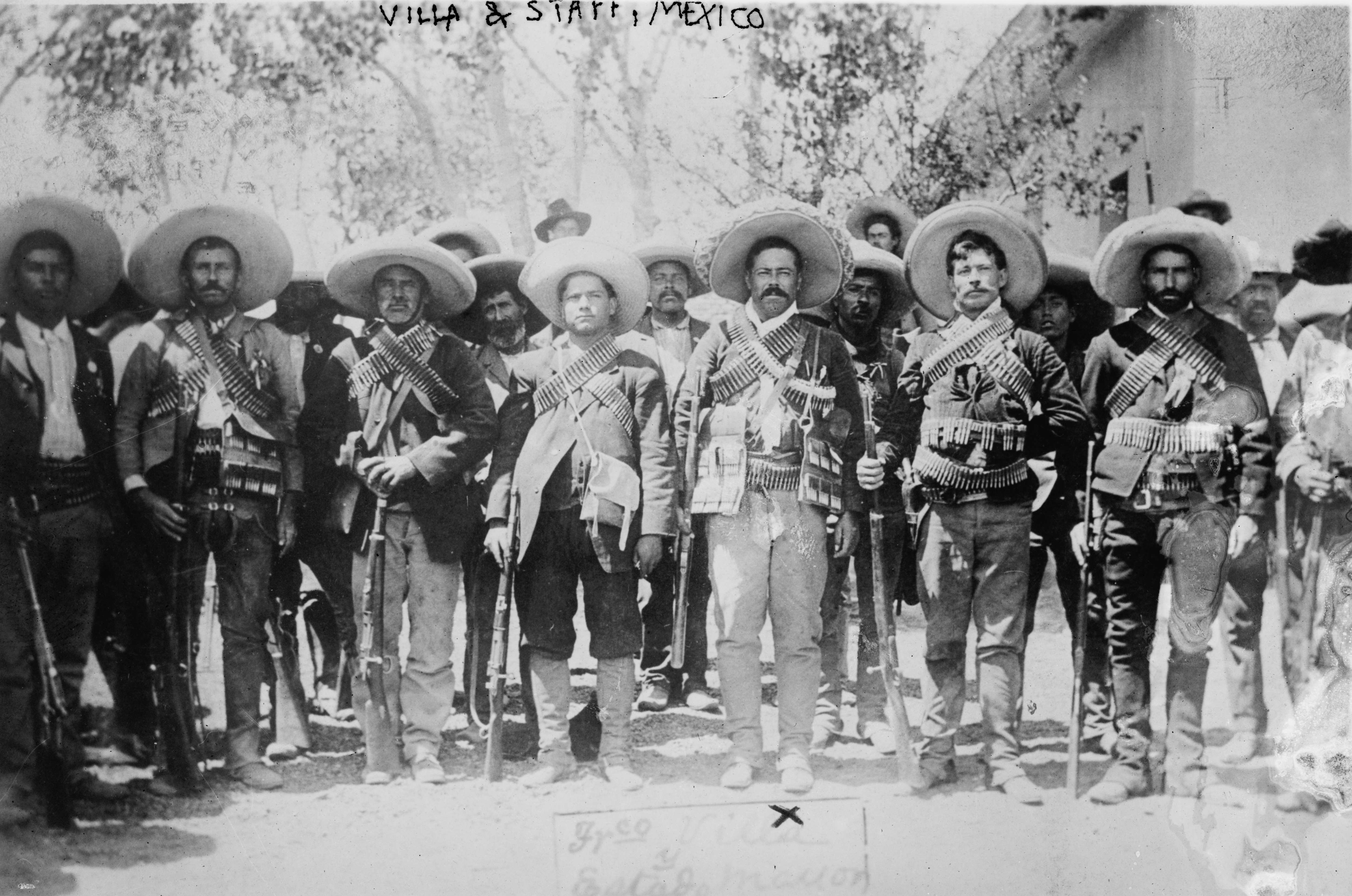 Title: Fco. Villa y su estado mayor Creator: C.C. Harris Foto Date: 1910-1917 Part Of: American border troops and the Mexican Revolution Physical Description: 1 photographic print (postcard): gelatin silver Form/Genre: Postcards; Photographic postcards; Photographs; Photographic prints File: ag1982_0015_006c_villa_estado_mayor.jpg Rights: Please cite Southern Methodist University, Central University Libraries, DeGolyer Library when using this image file. A high-quality version of this file may be obtained for a fee by contacting . For more information, see: View Mexico: Photographs, Manuscripts, and Imprints at